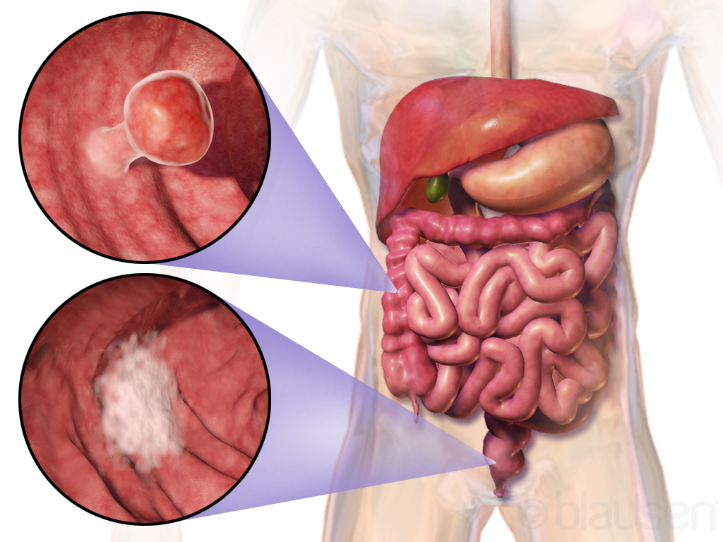 Colorectal Cancer. See a full animation of this medical topic.